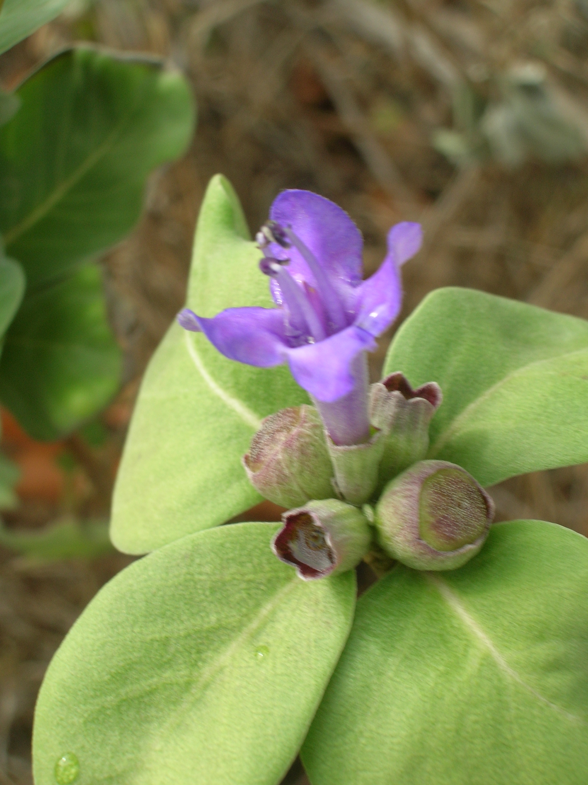 Vitex rotundifolia (flowers fruit forming and leaves). Location: Kahoolawe, Honokanaia